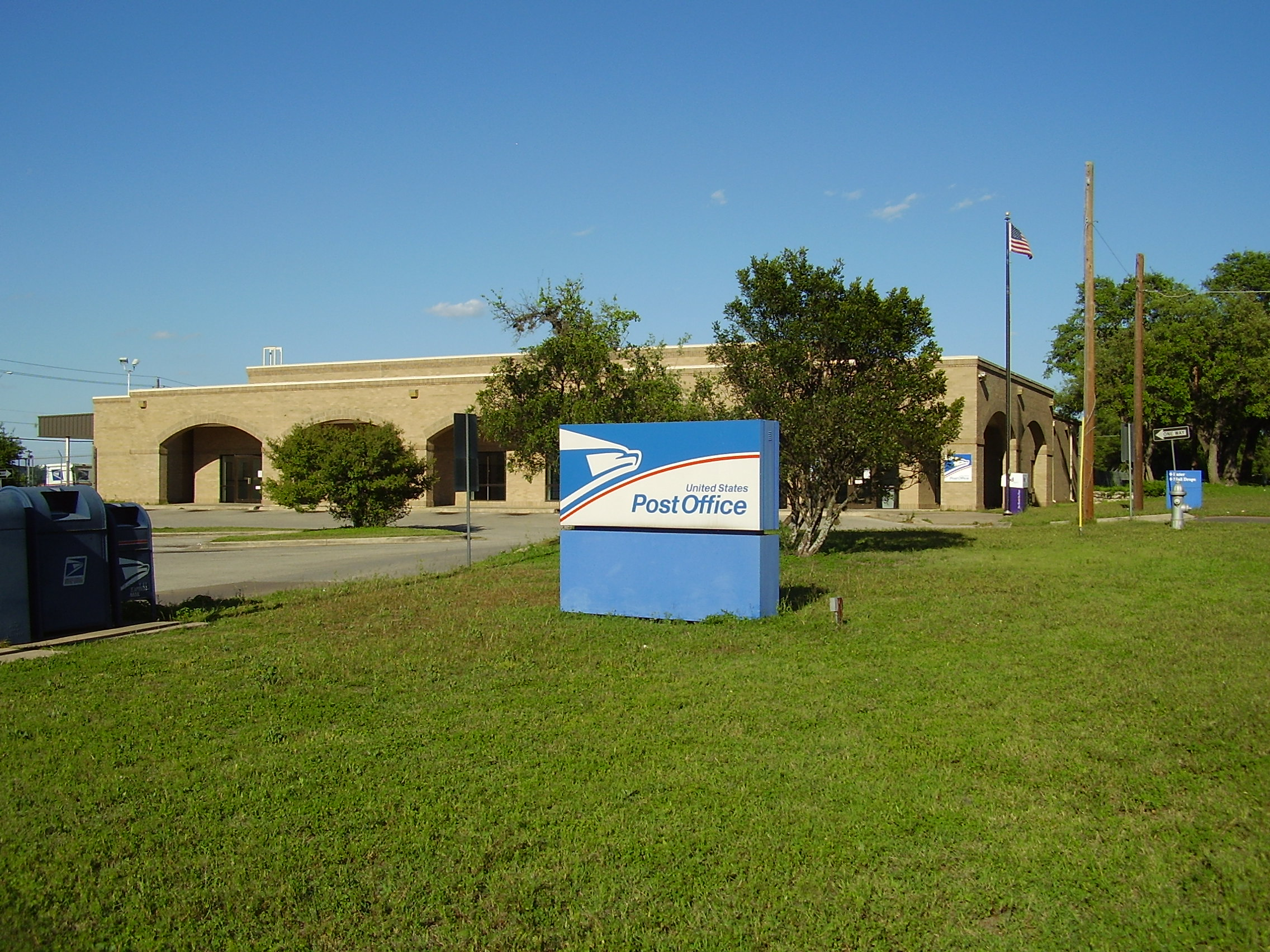 Oak Hill Station Post Office - Austin, TX